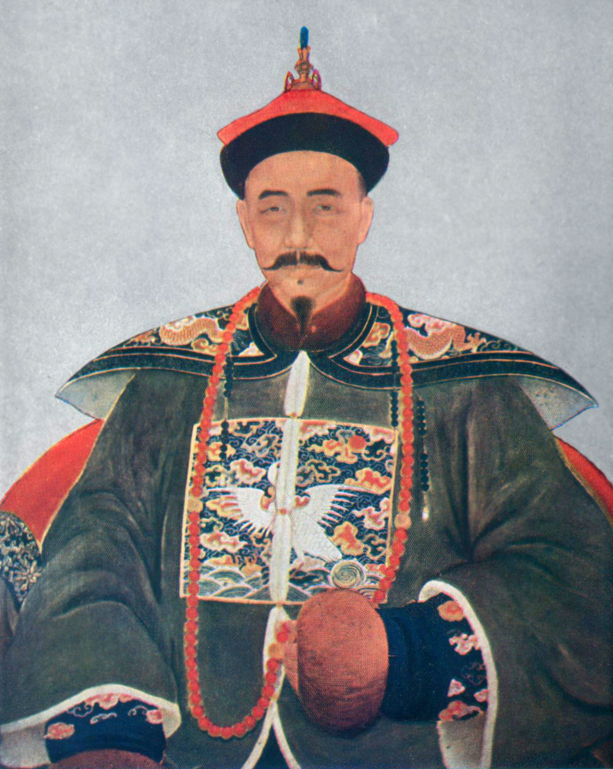 Puankhequa (Chinese: 潘启官; pinyin: Pān Qǐguān), also known as Pan Wenyan or Zhencheng,[2] (1714 – 10 January 1788) was a Chinese merchant and member of a cohong family, which traded with the Europeans in Canton. This painting of him from the 1700s is in the collections of the Gothenburg Museum.